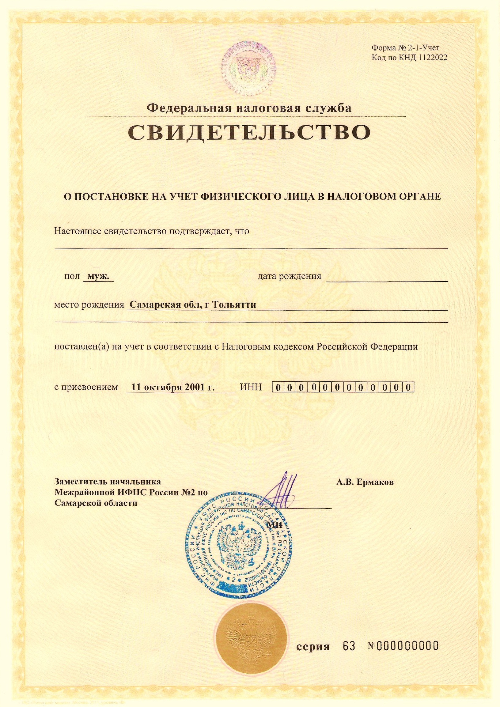 Certificate of registration of the physical person to the tax authority in Russia.